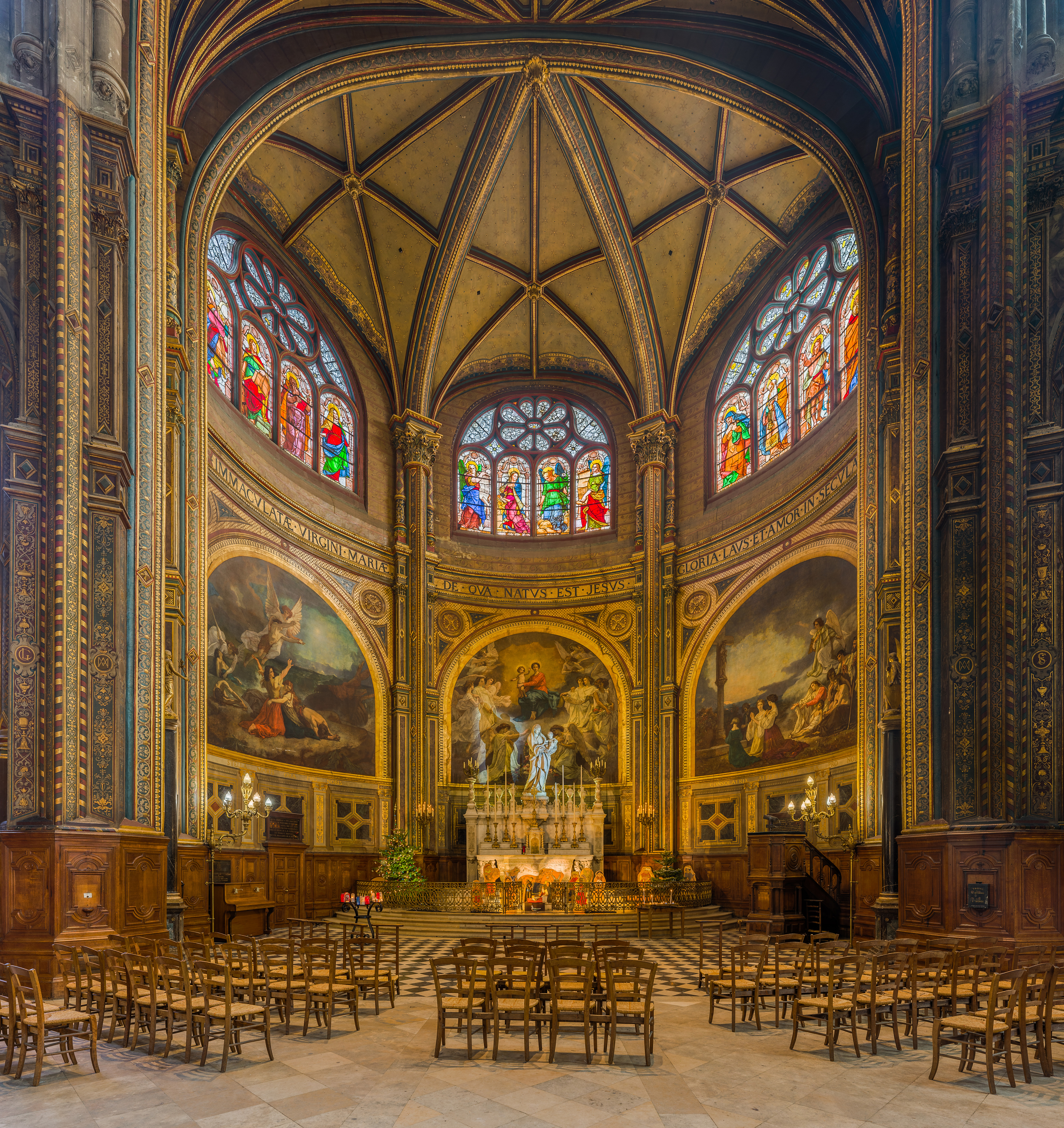 The Chapel of the Virgin in the Church of St Eustache, Paris, France.